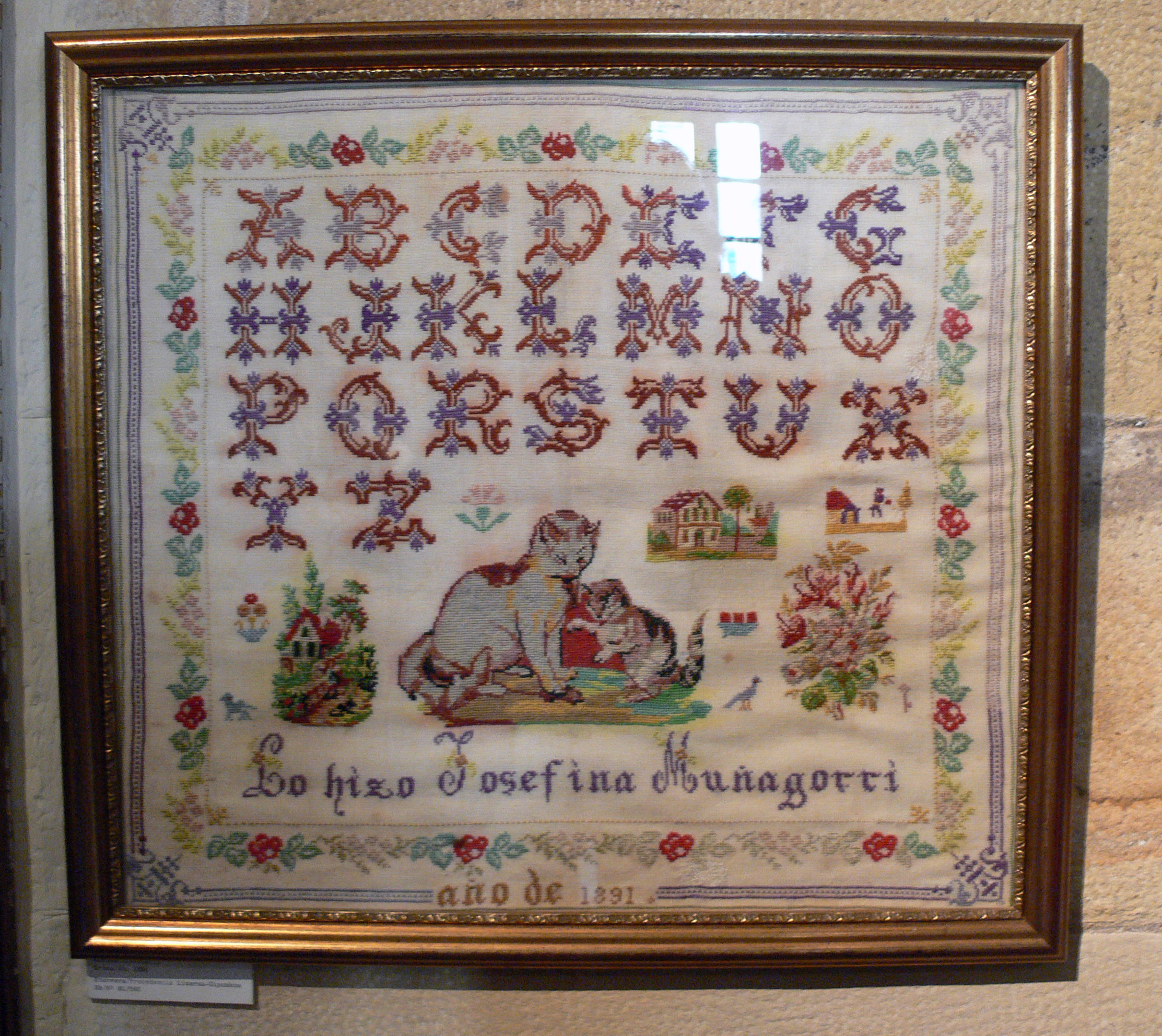 Embroidery sampler from 1891